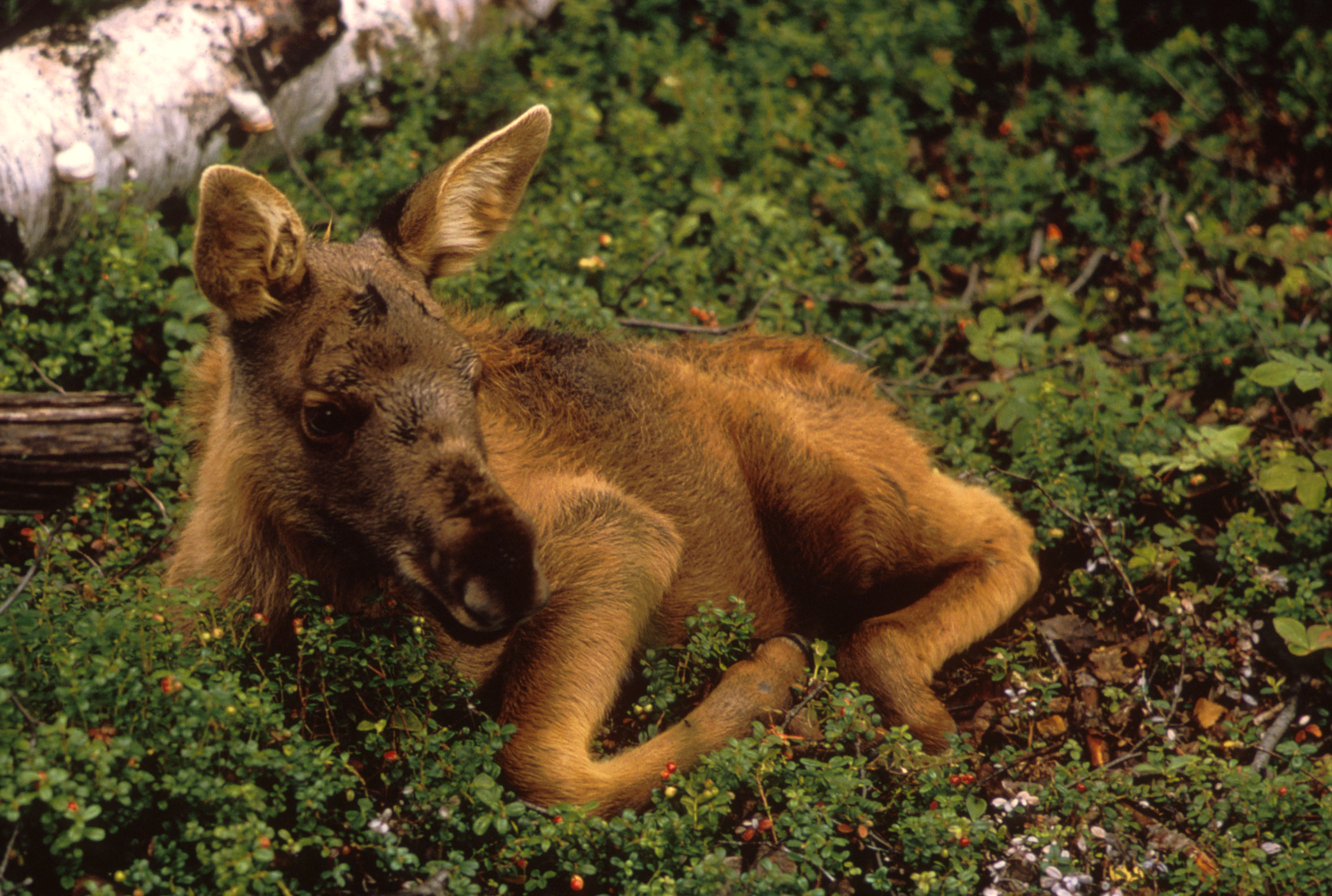 Moose calf